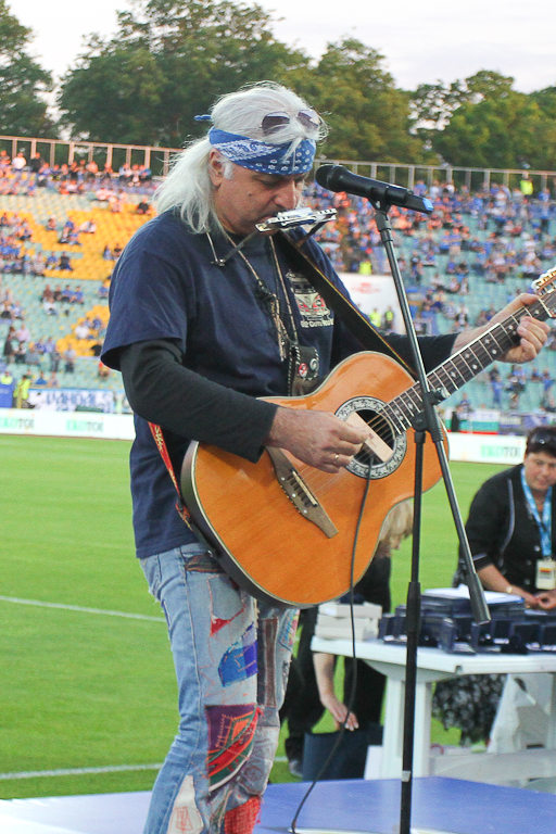 Vasko The Patch